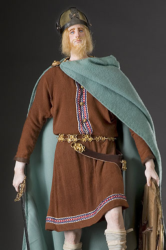 Historical Mixed Media Figure of Alfred the Great produced by artist/historian George S Stuart and photographed by Peter d'Aprix. This image, from the George S Stuart Gallery of Historical Figures® archive ( is provided for all uses with appropriate attribution. Any derivatives must be shared in the same manner. Contributor mharrsch is webmaster for the gallery site.